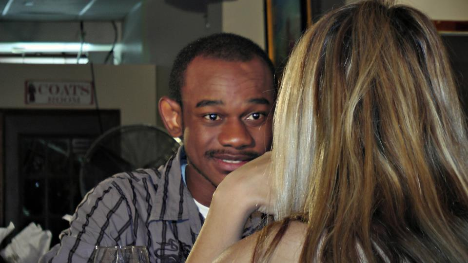 I took this picture on set of Perri's second Production Three Of One Kind.